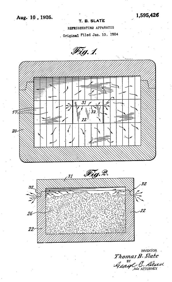 Patent drawing of container involved in Carbice Corp. v. American Patents Development Corp. Other information patent drawing for use in Carbice Corp. v. American Patents Development Corp.